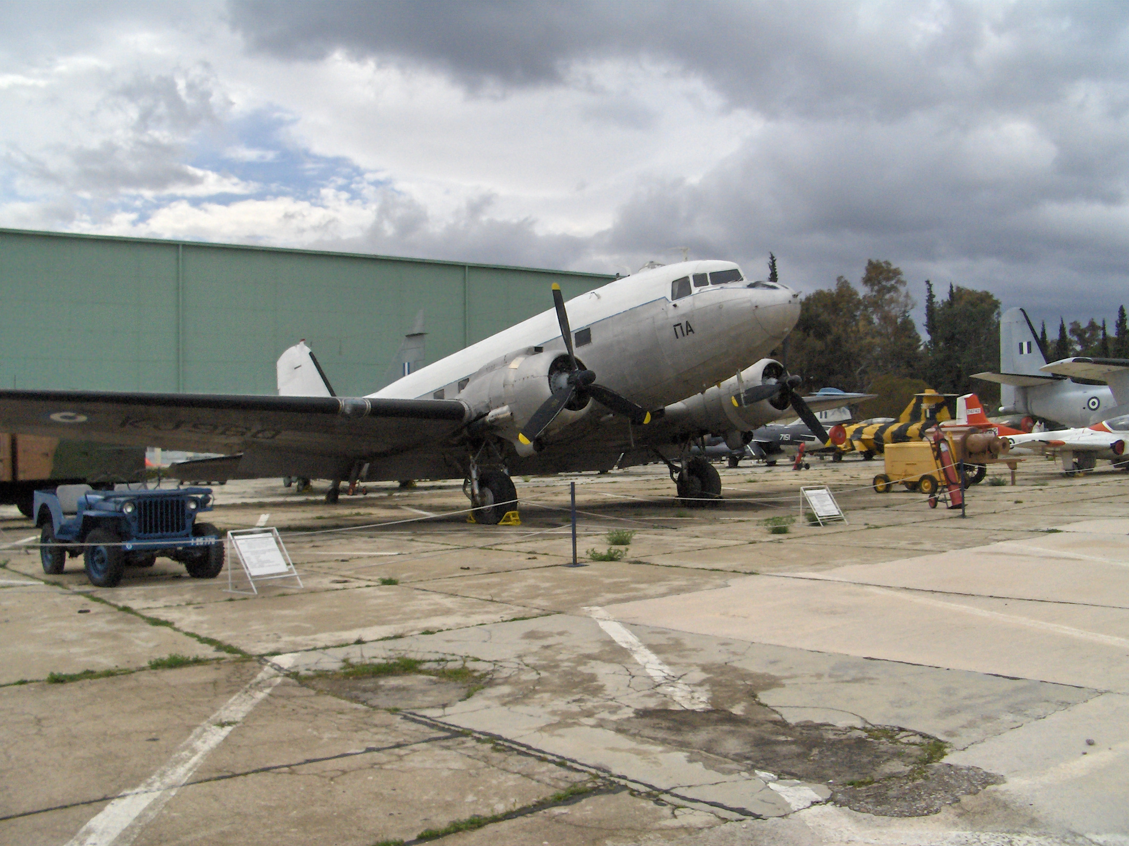 Exhibit at the Hellenic Air Force Museum at Dekelia (Tatoi), Athens, Greece.